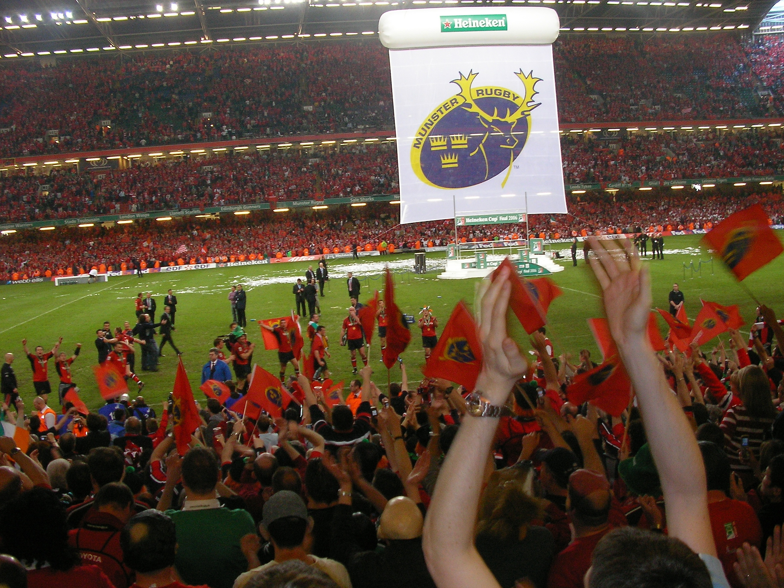 The Munster Rugby Team as European Rugby Cup champions 2006 doing a lap of honour in the Millenium Stadium, Cardiff.